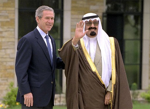 President George W. Bush delivers remarks to the press inside the Marine One hangar at the Bush Ranch in Crawford, Texas following his meeting with the Crown Prince Abdullah of Saudi Arabia, Thursday, April 25, 2002.